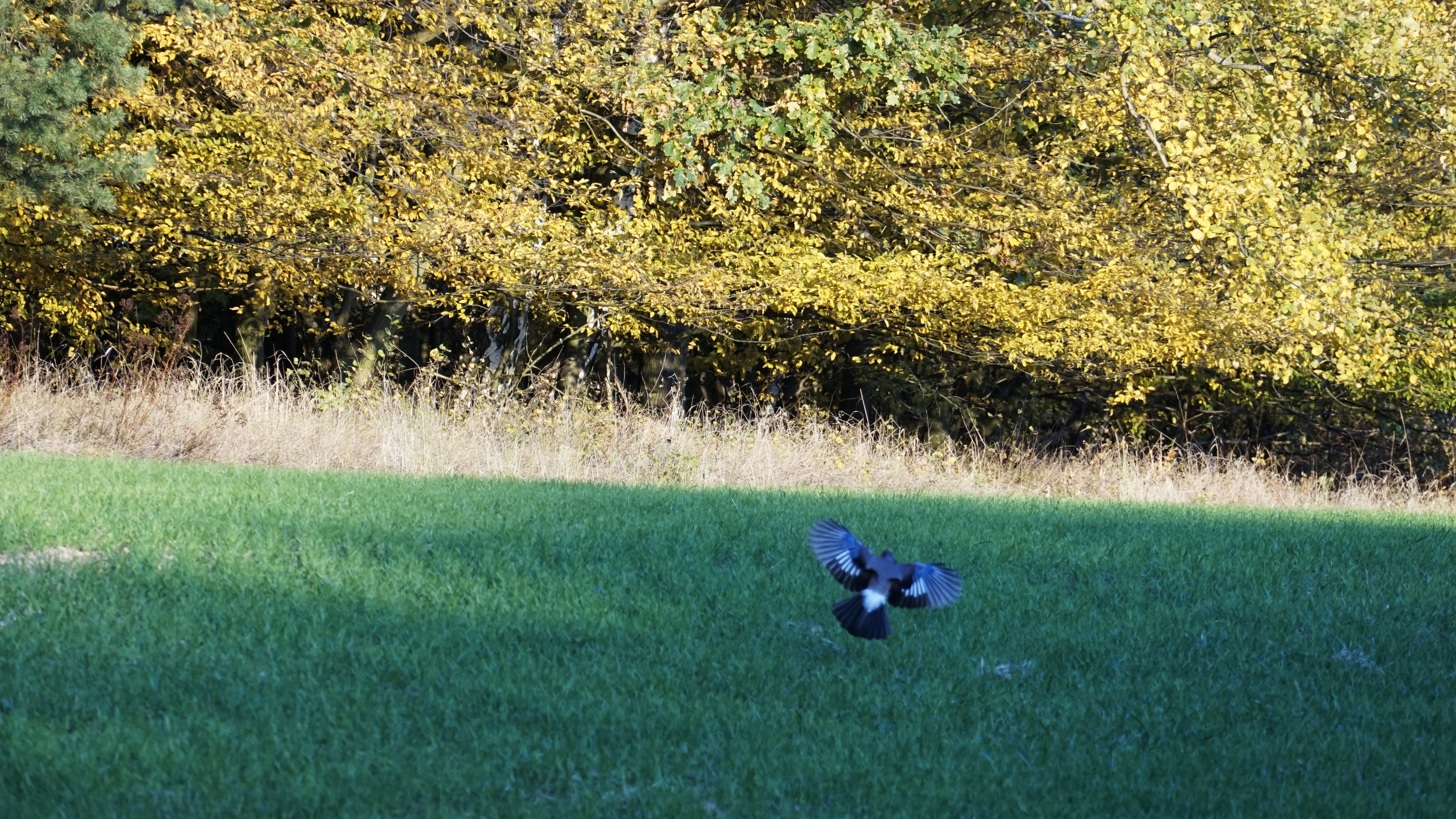 Eurasian jay flight on a field (from Czech republic)